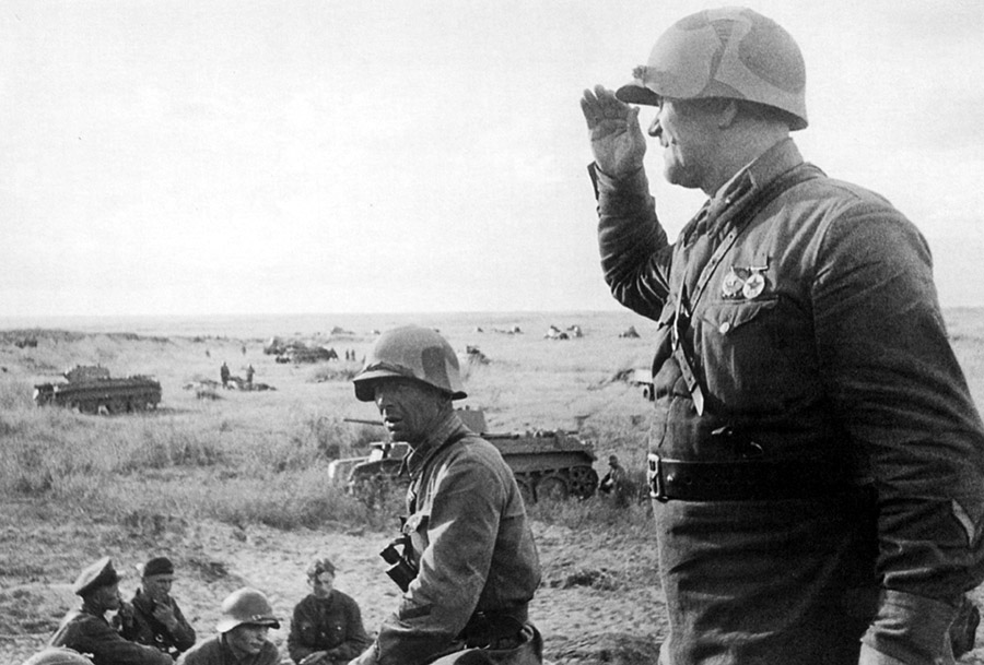 Red Army before offensive. Khalkhyn Gol.